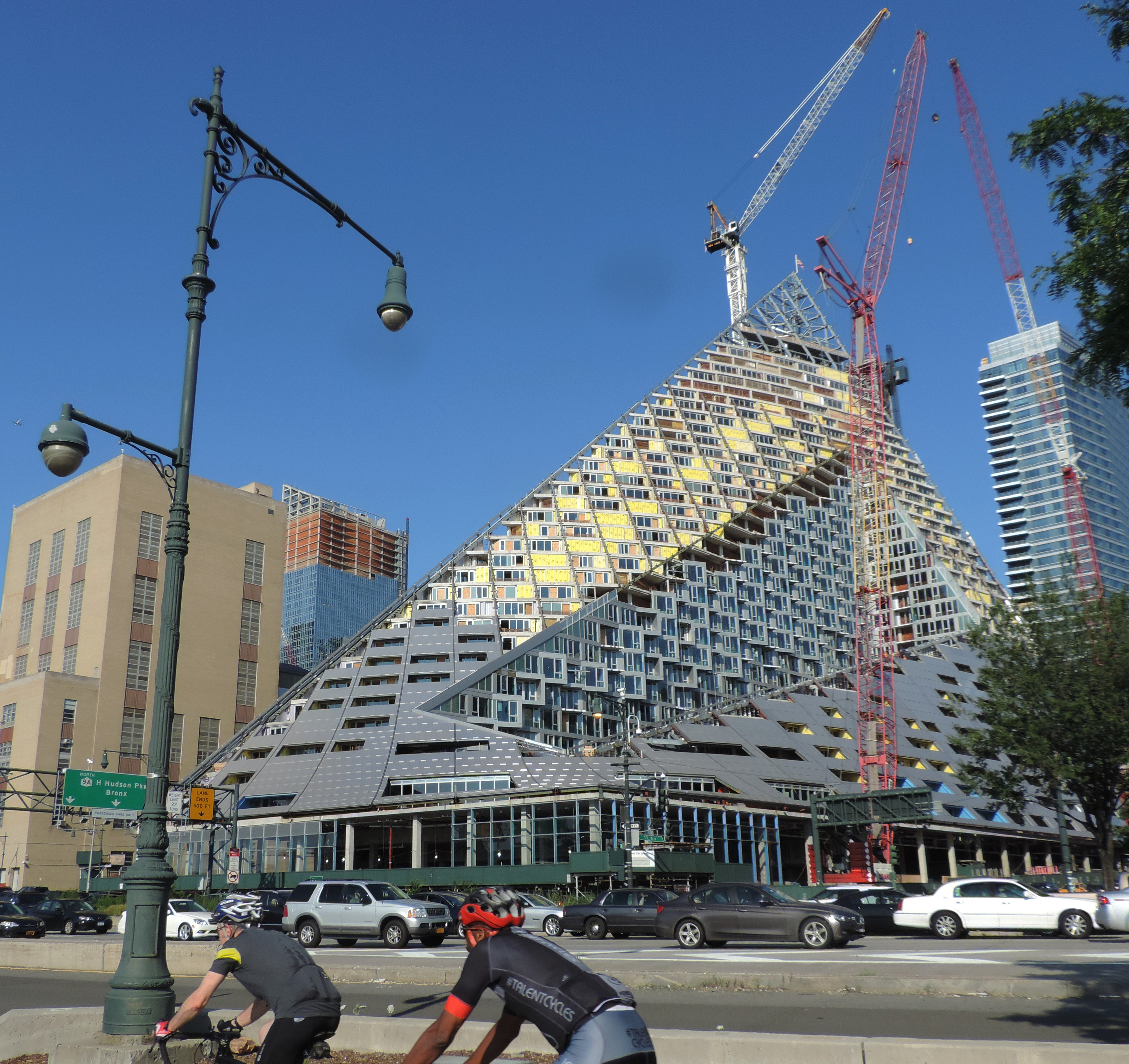 Looking east on a sunny day.